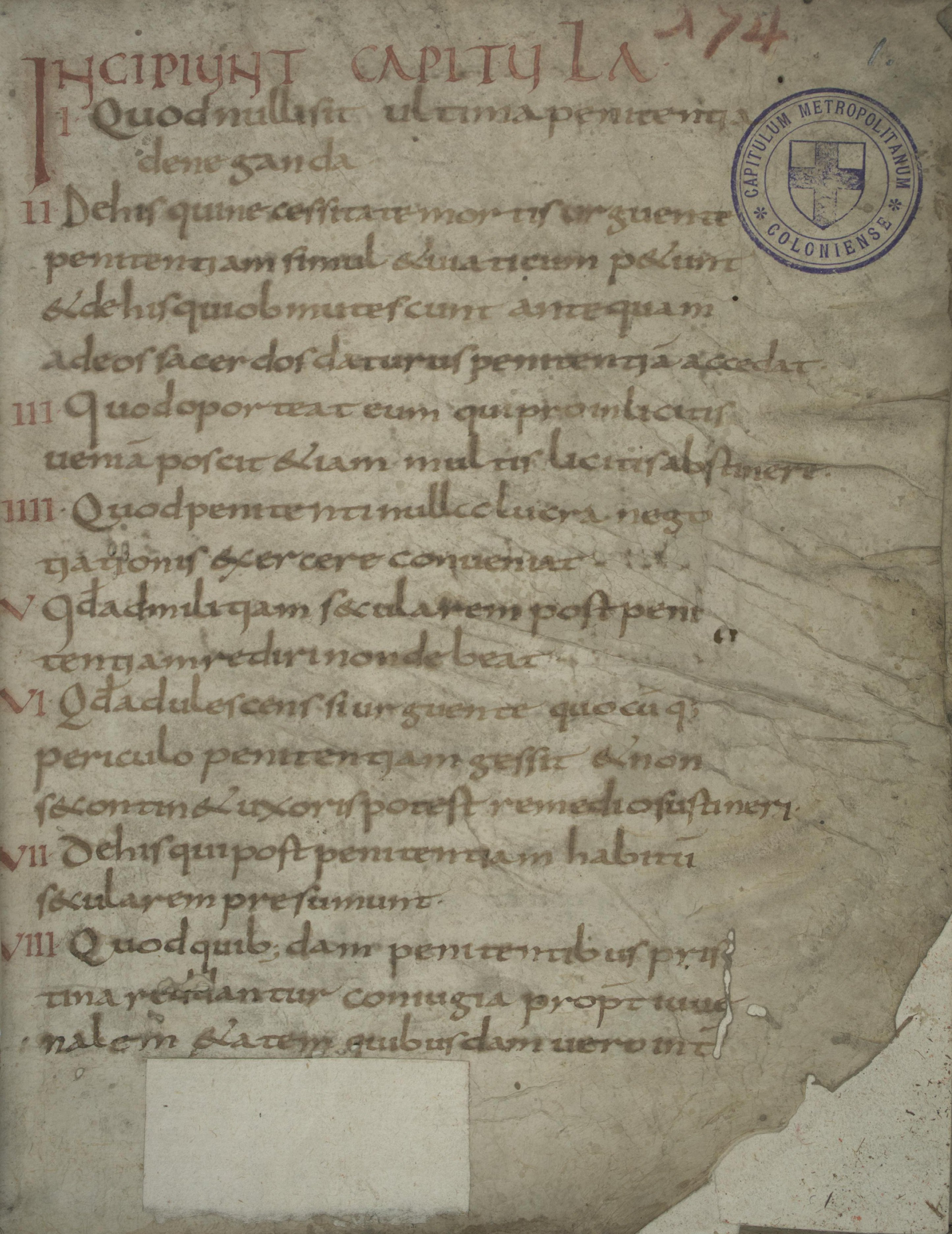 This folio and the whole volume of this codex present the Dacheriana, a systematic collection of canon law that was written c. 800 in southern France, probably Lyon. This codex was was written c. 805, probably in Northeastern France. This is folio 1r of Codex 122 from the library of the Cologne cathedral. Part of this text was published in 1672 by Luc d‘Achery.